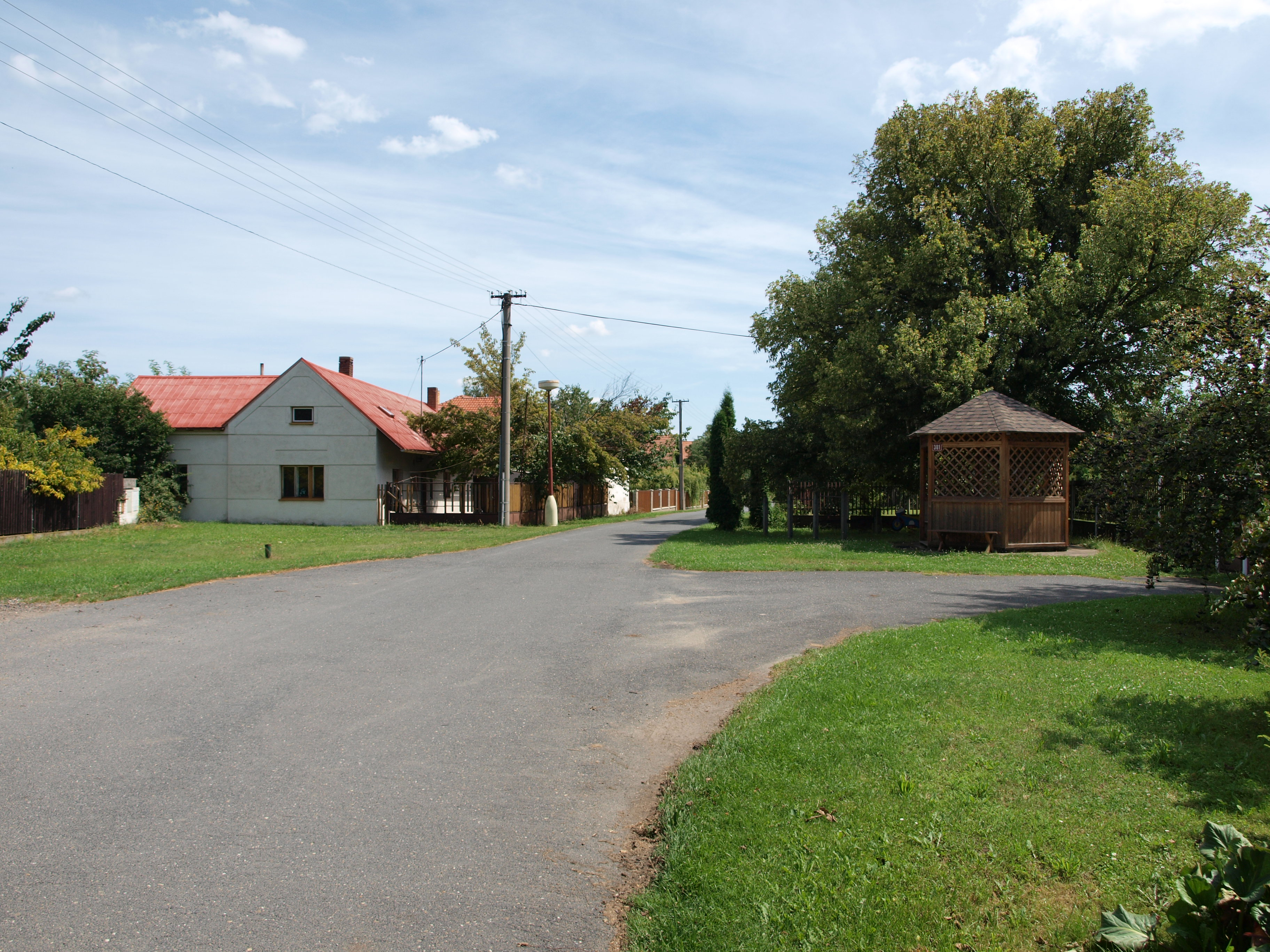 Village square, Draho (part of village Chleby), Nymburk District, Central Bohemian Region